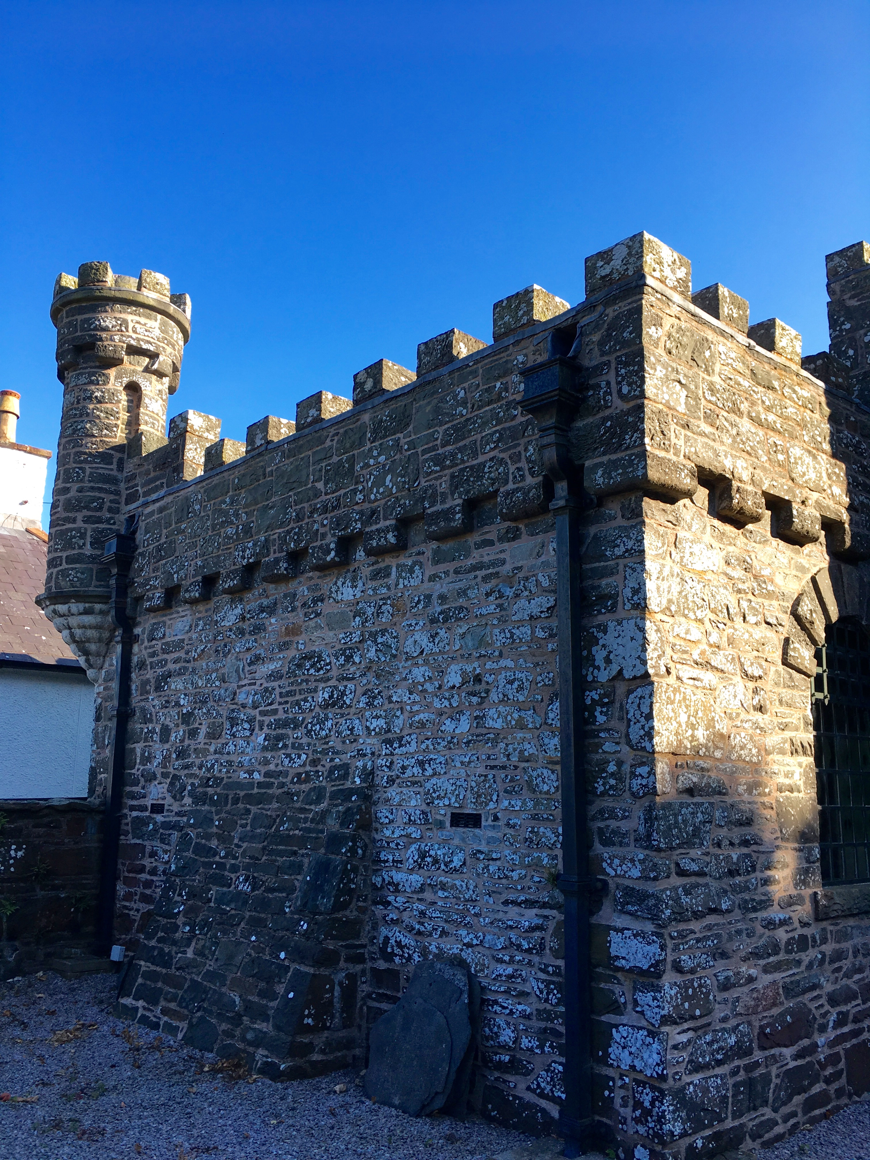 Kirkandrews, Memorial Chapel And Burial-ground Wikidata has entry Q17780440 with data related to this item.